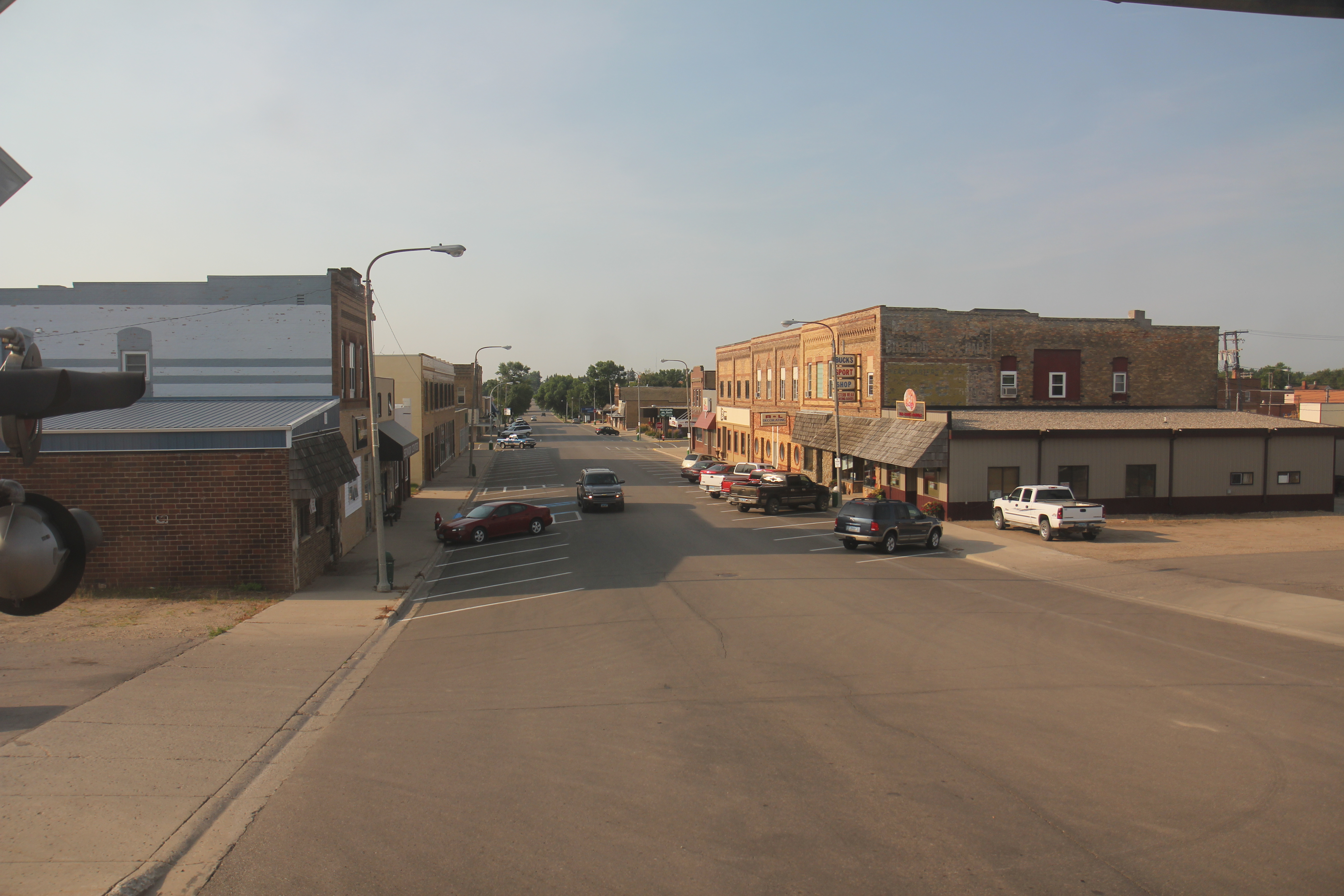 Looking north in downtown Rugby, North Dakota.